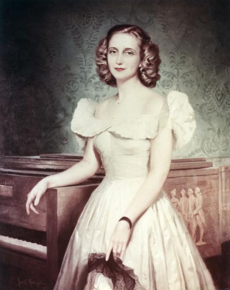 Portrait of Margaret Truman painted by Greta Kempton